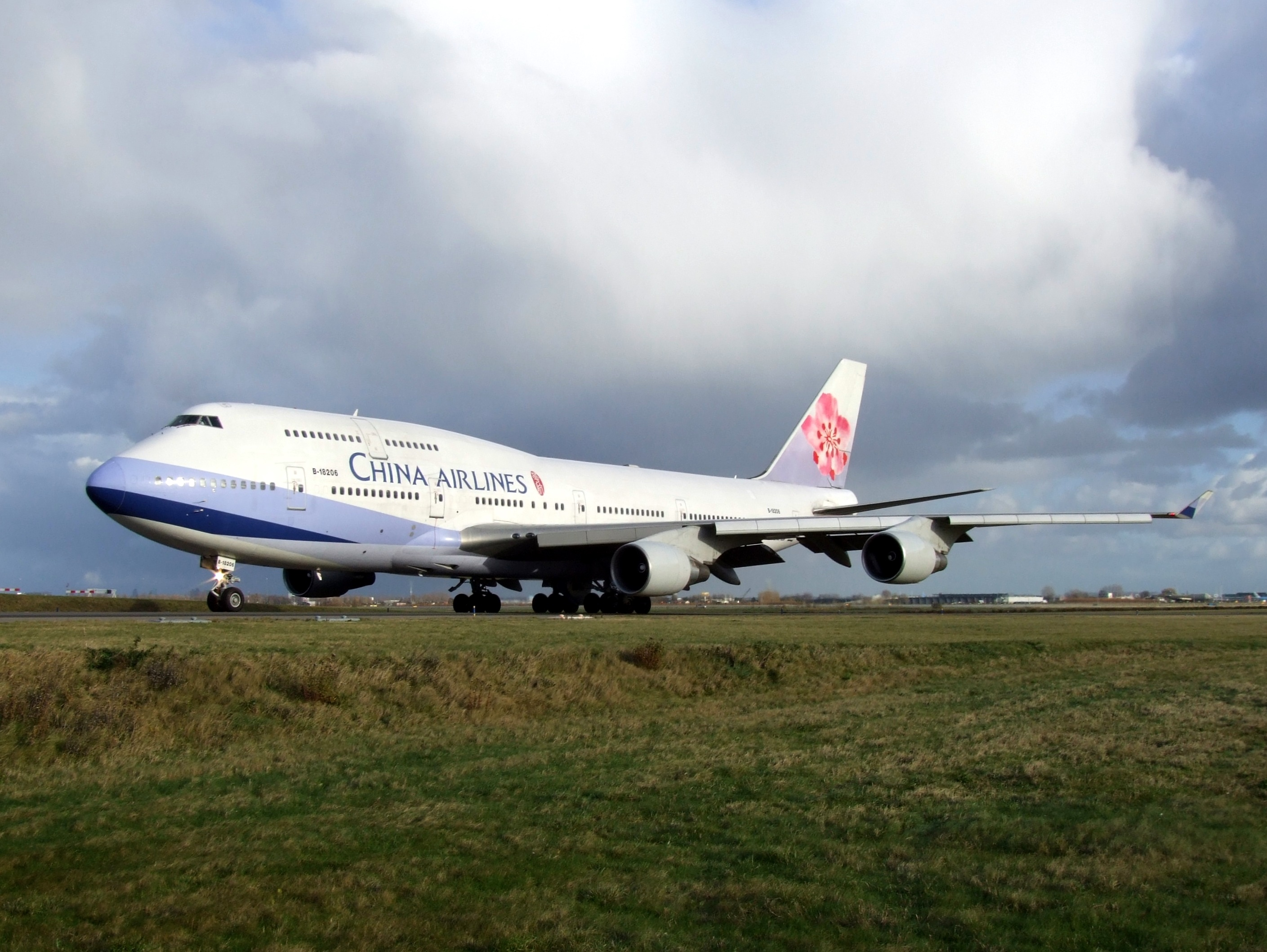 Photographed at Amsterdam Airport, (Schiphol).